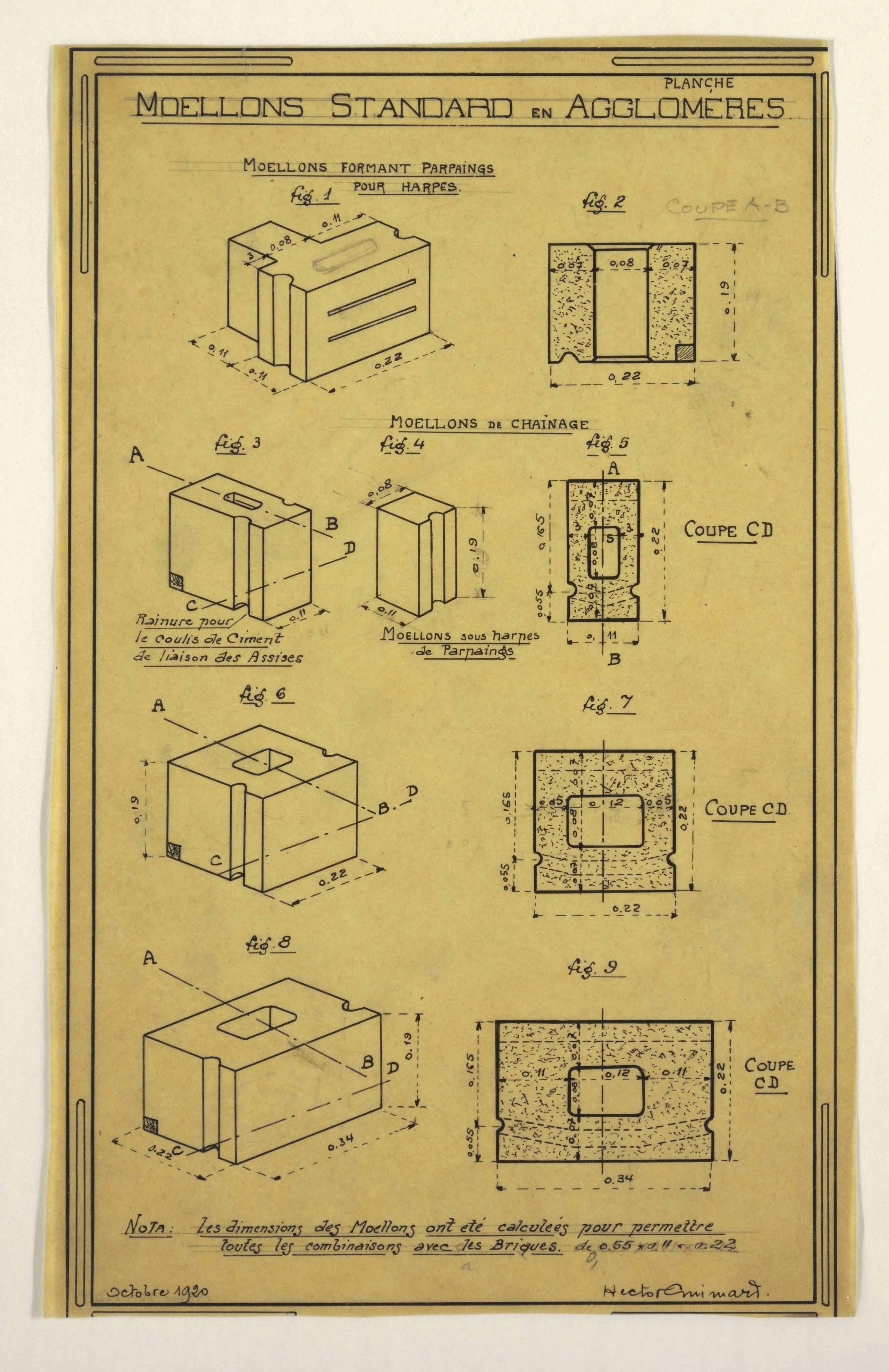 Design for a mass-operational house by Guimard, detailing construction.